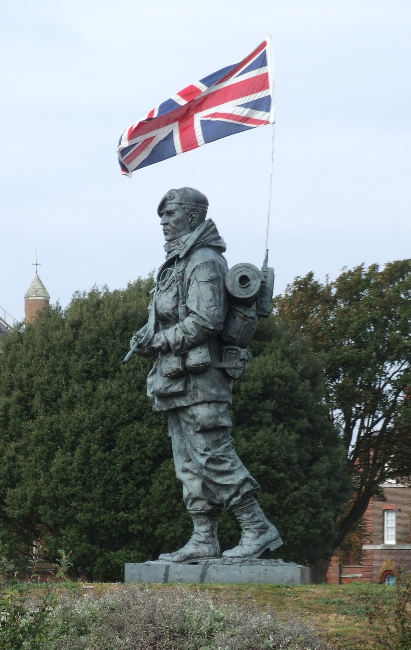 Royal Marines Museum (in passing)